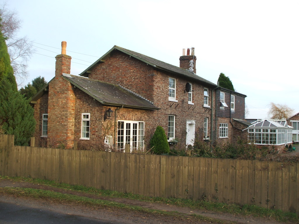 Hovingham Spa railway station (site), YorkshireOpened in 1853 as a branch of the York Berwick & Newcastle Railway's line from Thirsk to Malton, this station closed to passengers in 1931 and completely in 1964. The line crossed the road left to right behind the building with the former level crossing just out of view to the left.